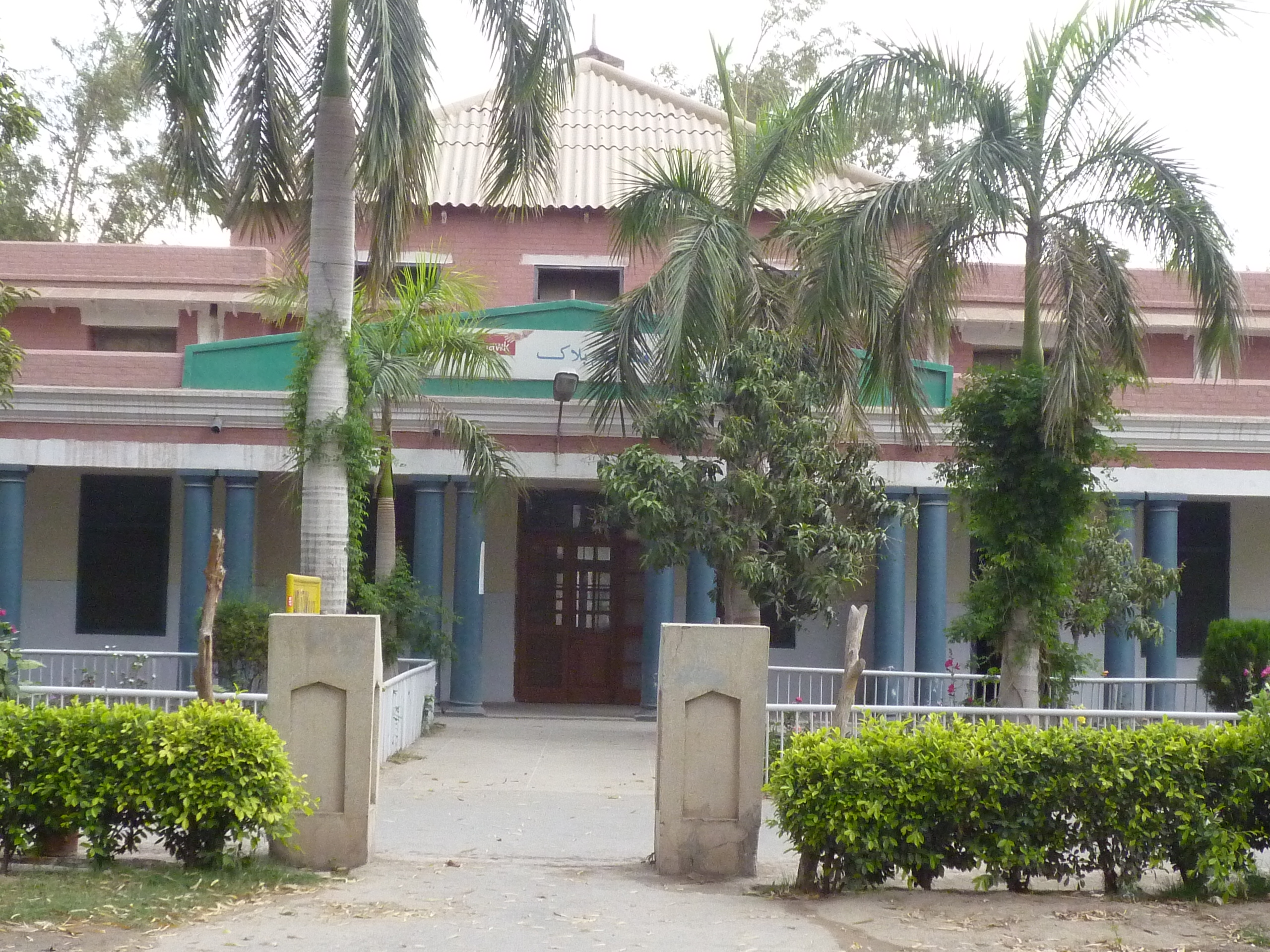 govt college jhang